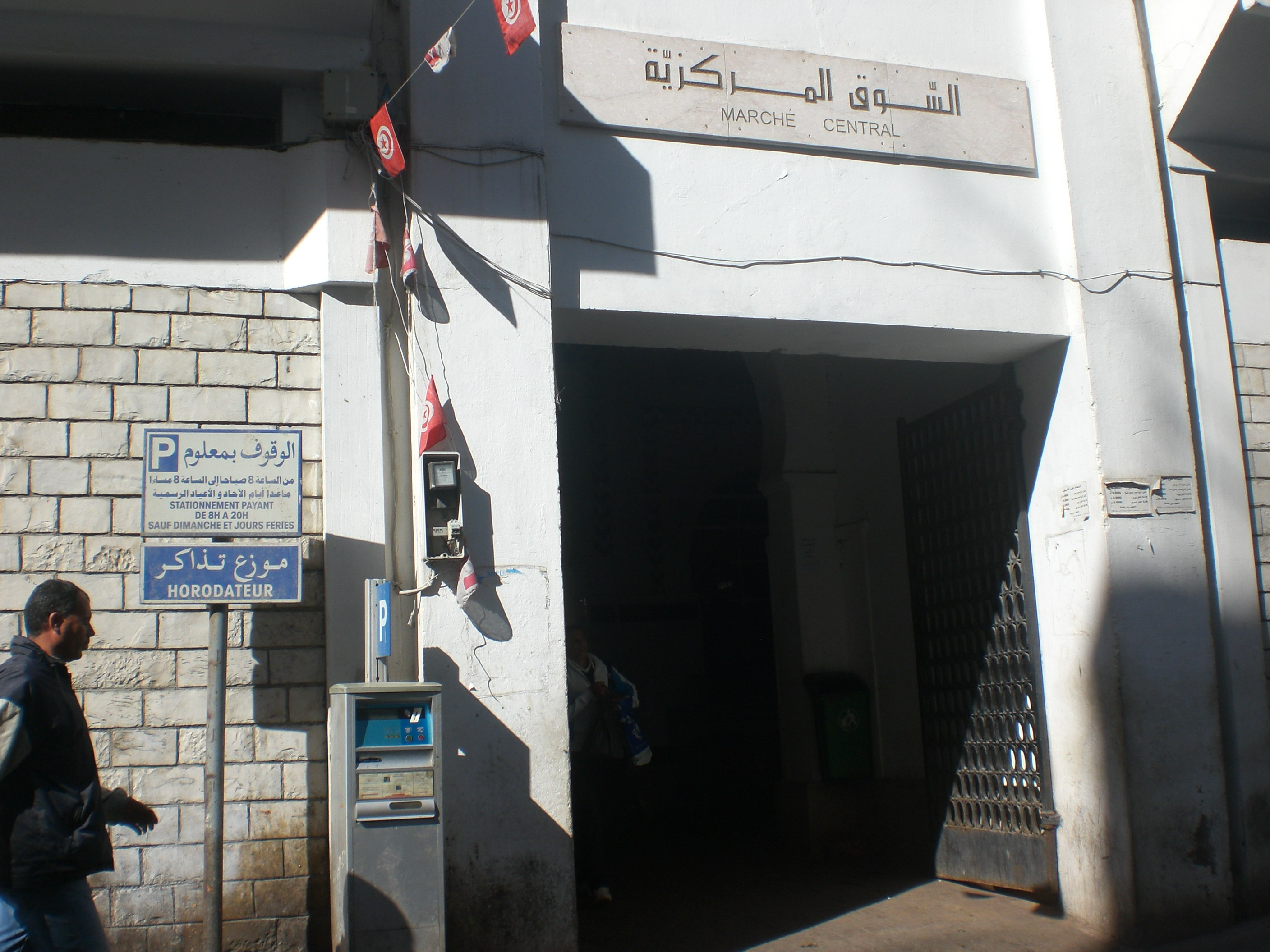 Central Market-Tunis